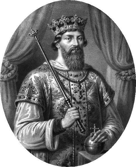 Casimir I of Poland